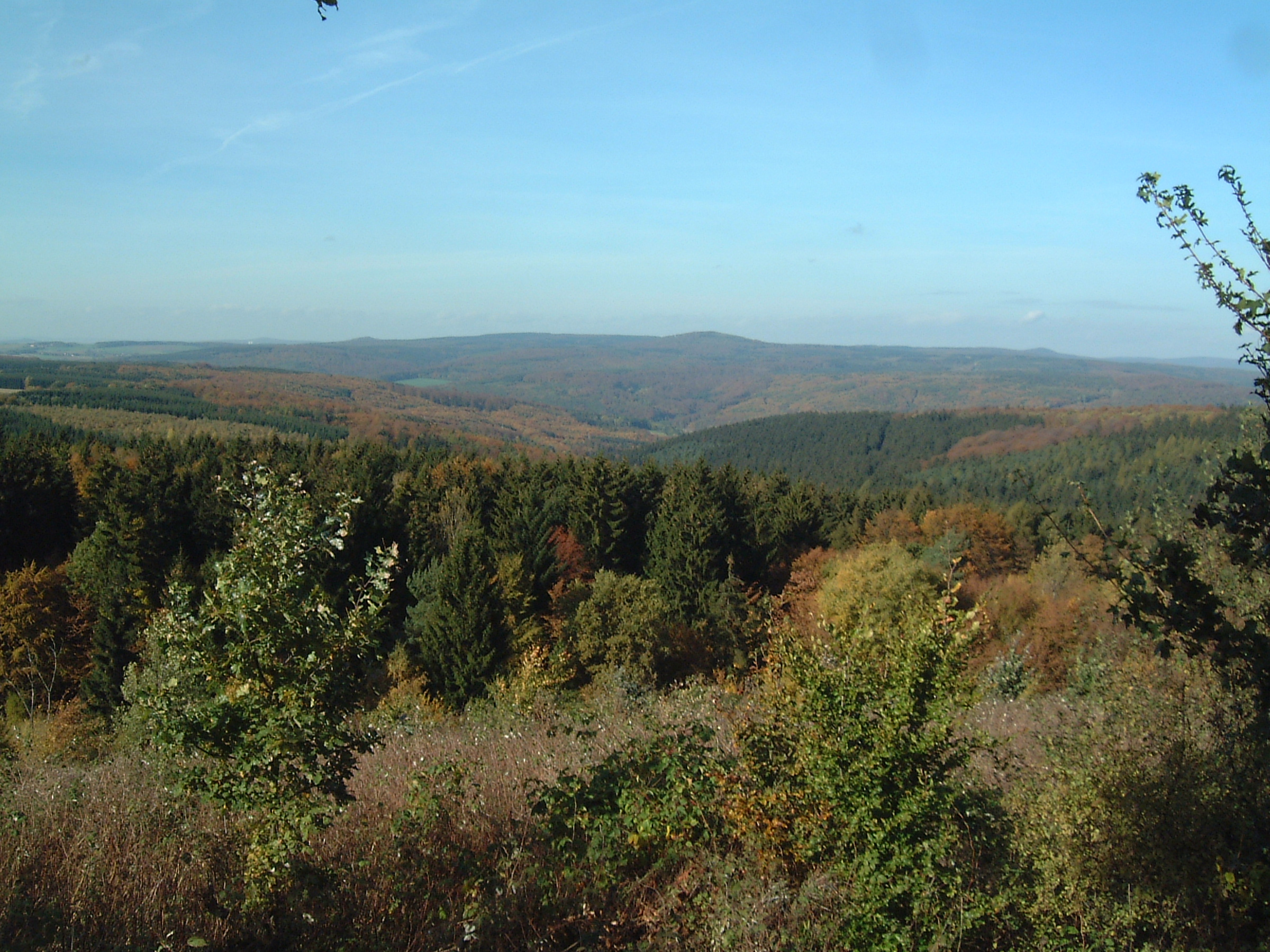 View towards Reinhardswald from Hühnerfeldberg, Lower Saxony, Germany